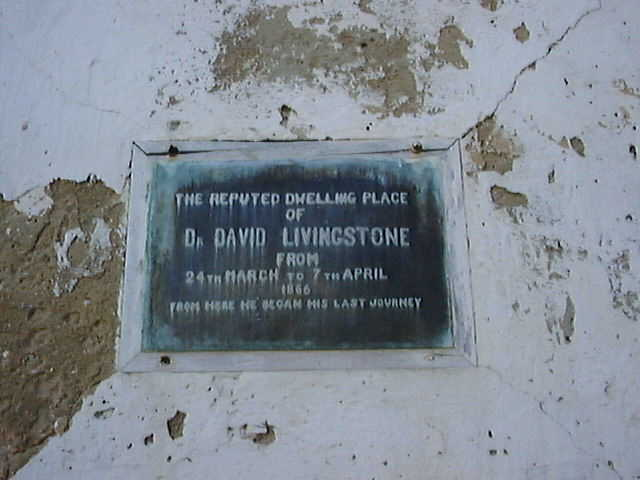 The plaque commermorating Dr. Livingstone's last journey that left from Mikindani.